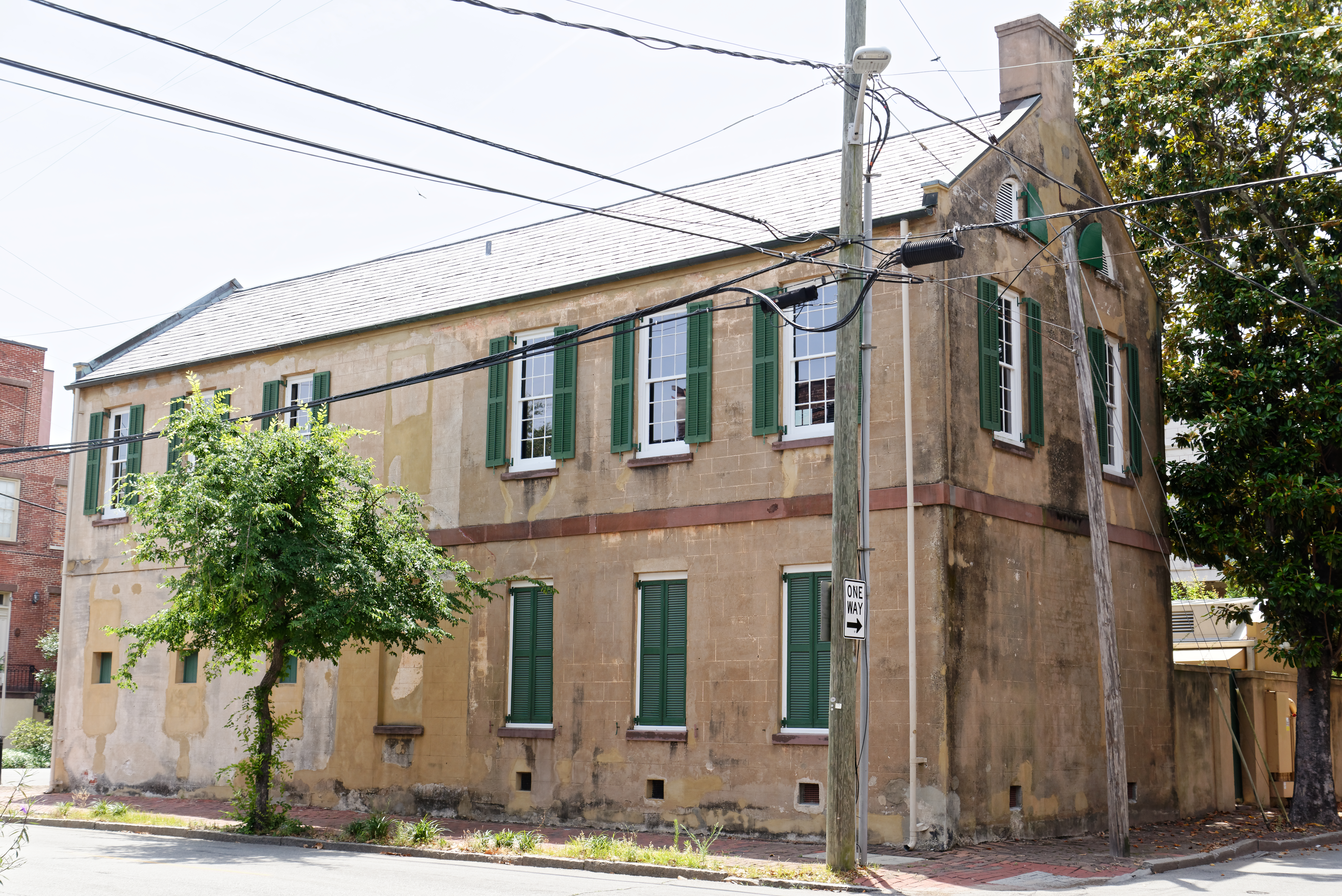 The slave quarters of the Owes-Thomas house in Savannah, Georgia, US.